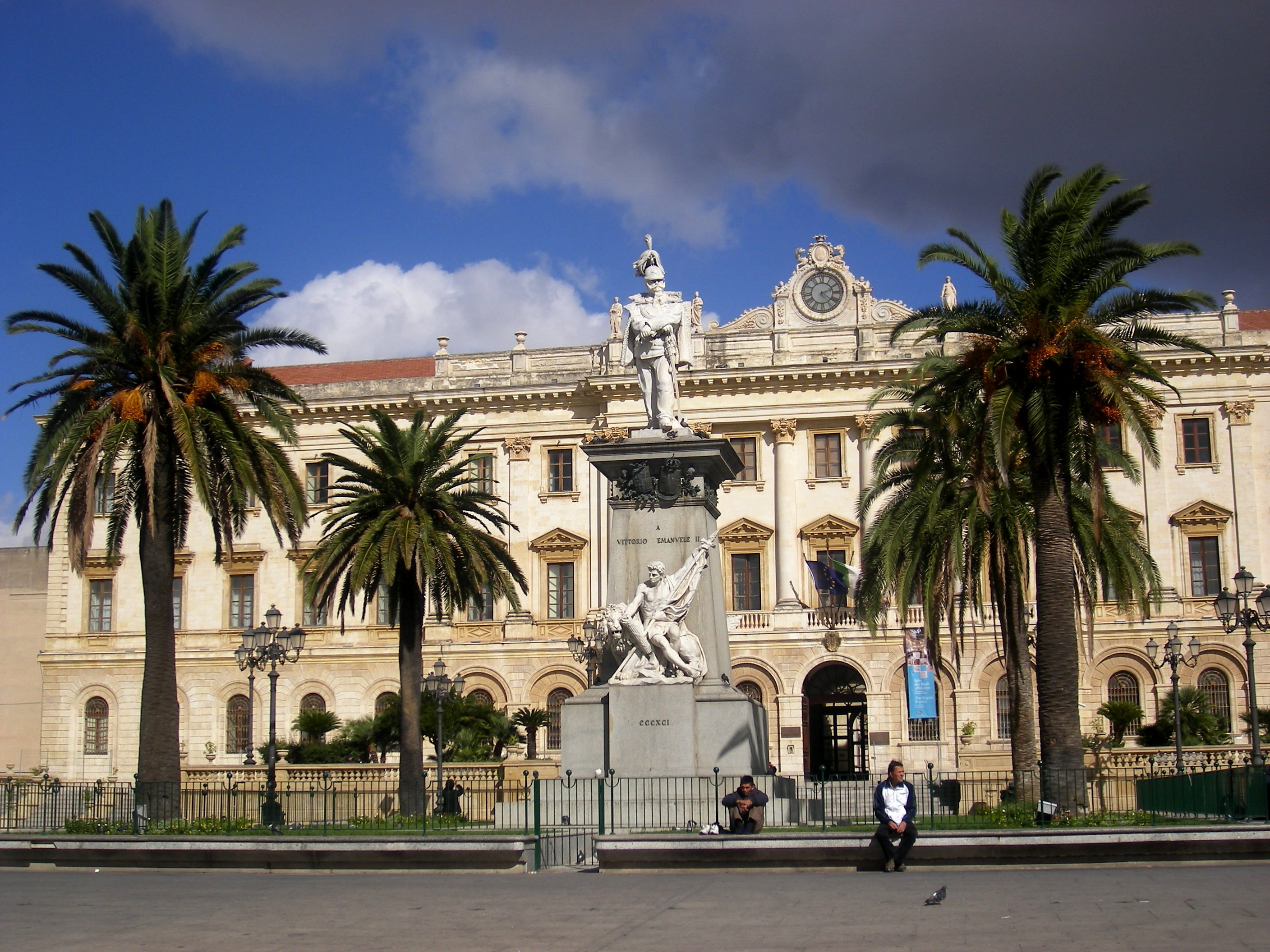 Palace of Sassari's Province with the monument